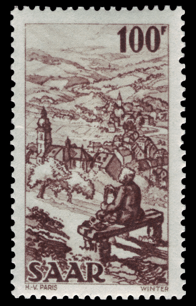 definitive stamp series pictures from industries, economy, agriculture and culture (also known as Saar IV)